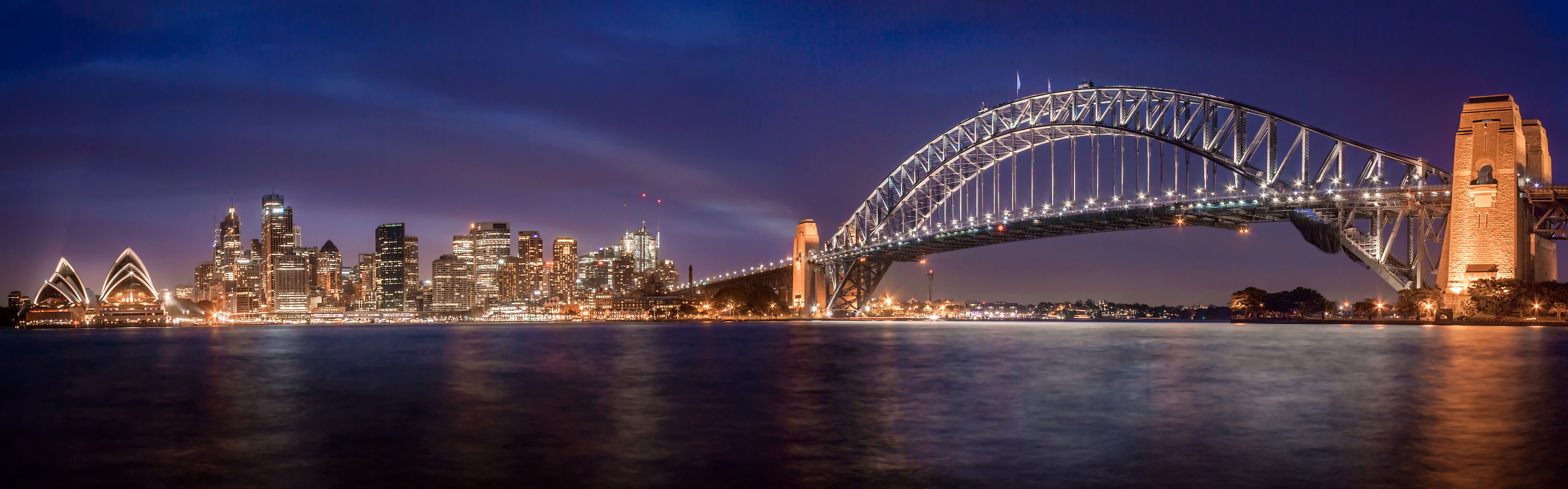 Night view of the Sydney skyline from the north in August 2016.